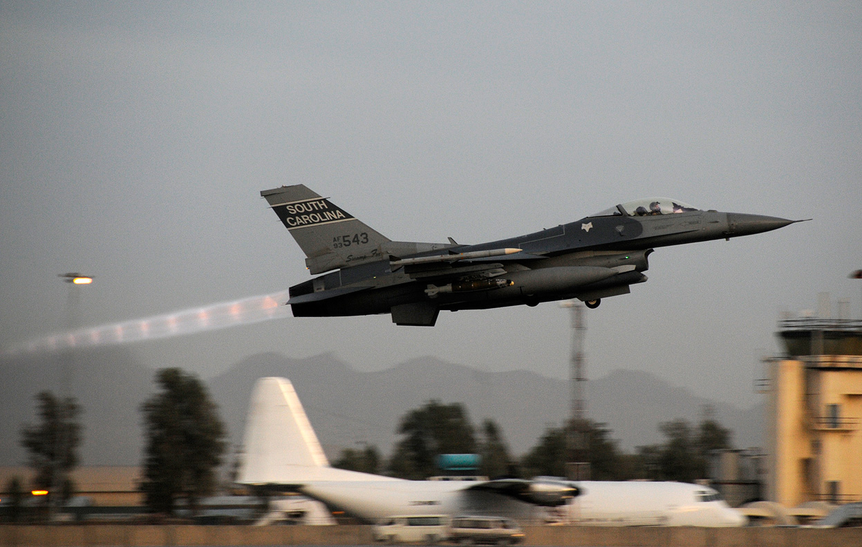 Lt. Col. Brent Allen, a fighter pilot assigned to the 157th Expeditionary Fighter Squadron at Kandahar Airfield, launches an F-16 Fighting Falcon for a mission on May 4, 2012. Personnel are deployed from McEntire Joint National Guard Base, South Carolina, in support of Operation Enduring Freedom. (South Carolina National Guard/Tech. Sgt. Caycee Cook)